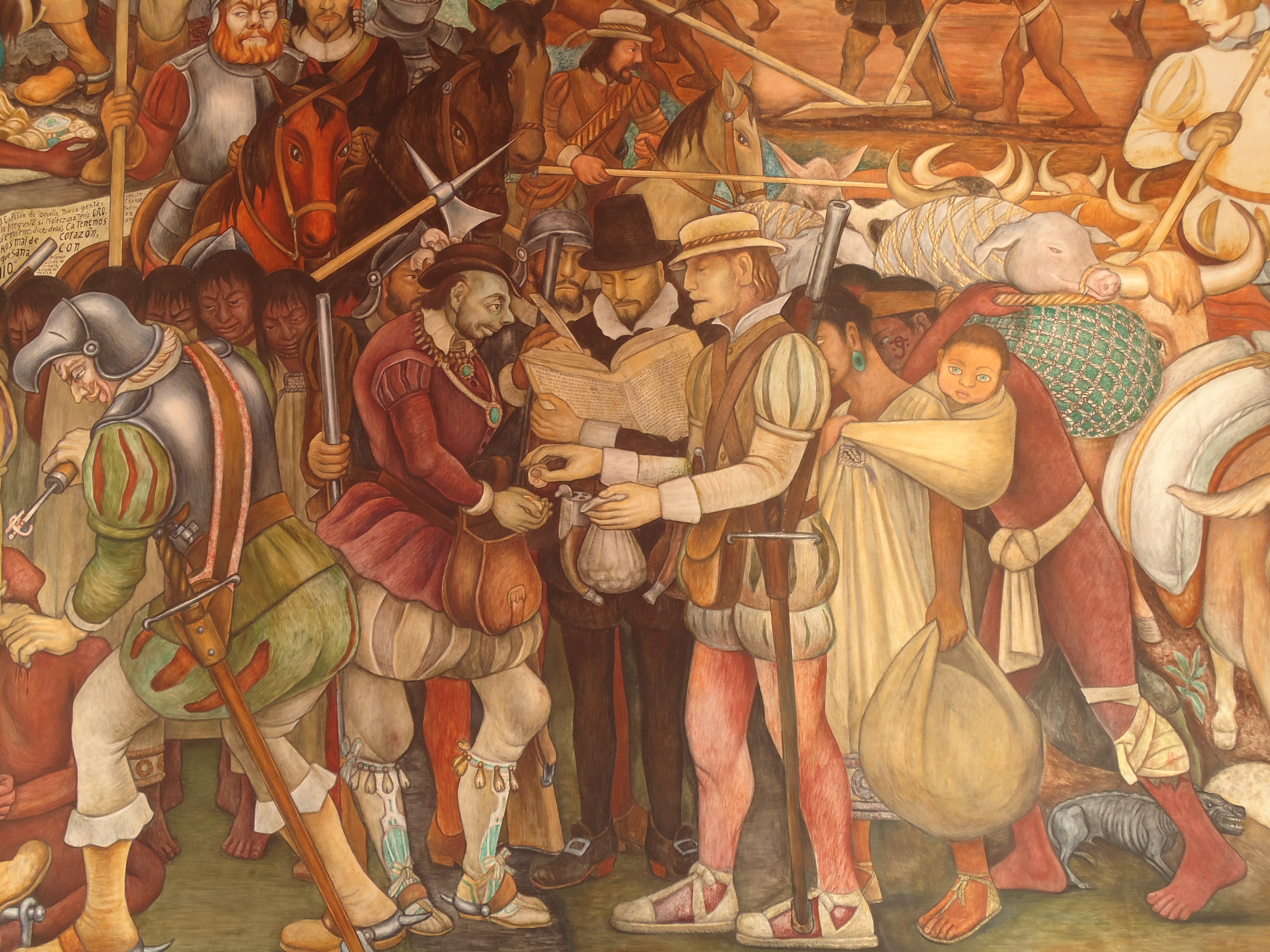 Arrival of Hernan Cortez by Diego Rivera in the Palacio Nacional, Detail